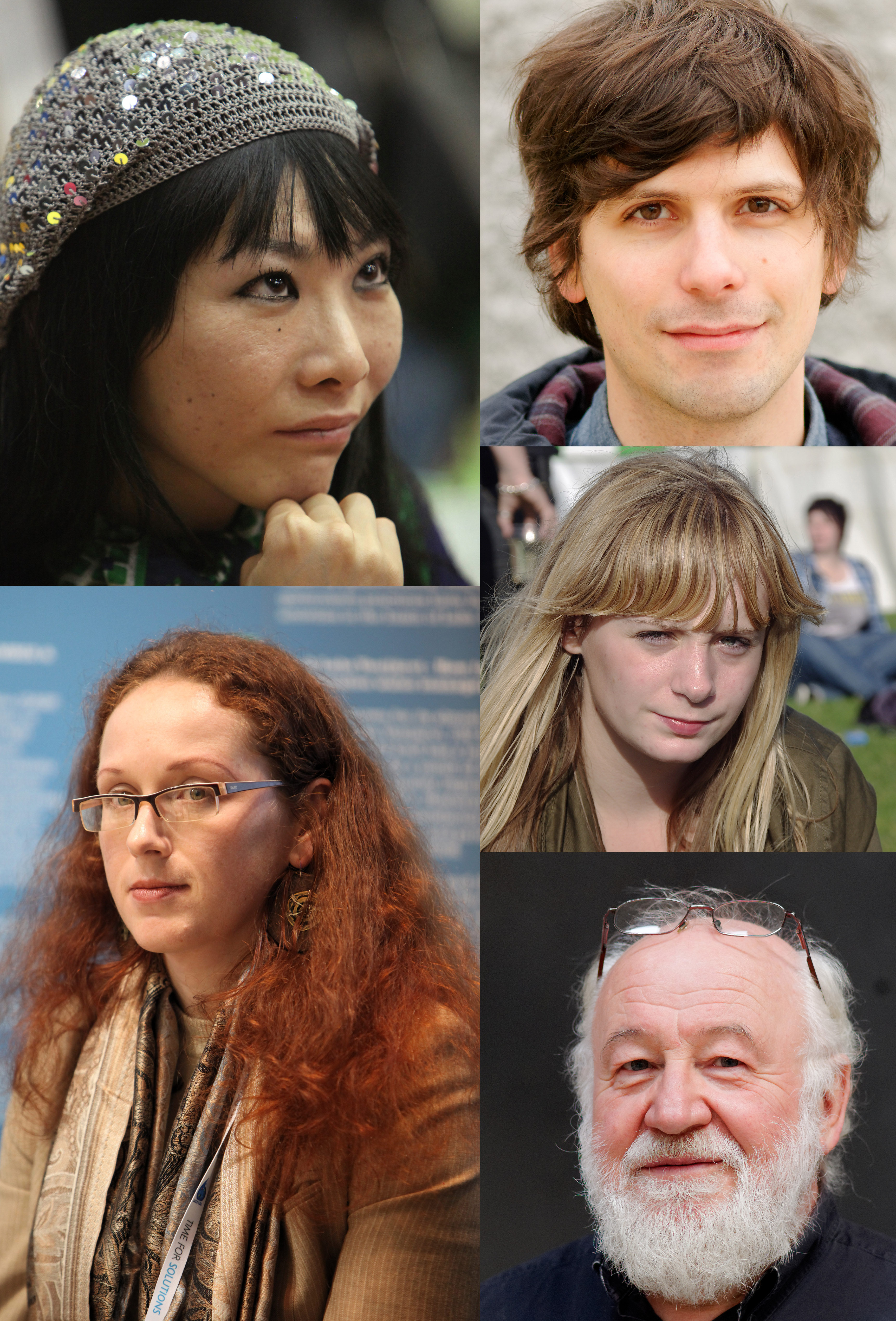 A collage of a variety of human hair colors.